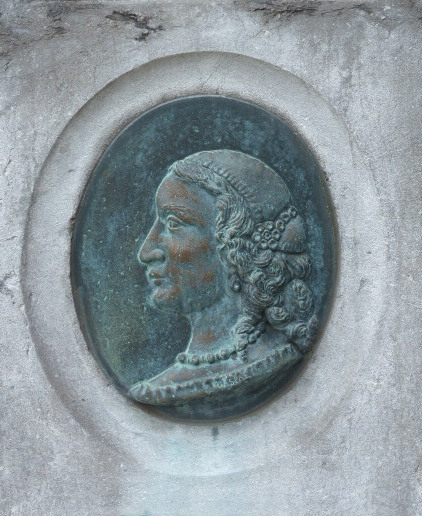 Elisabeth Charlotte von Schaumburg-Nassau. Waldenserdenkmal in Charlottenberg